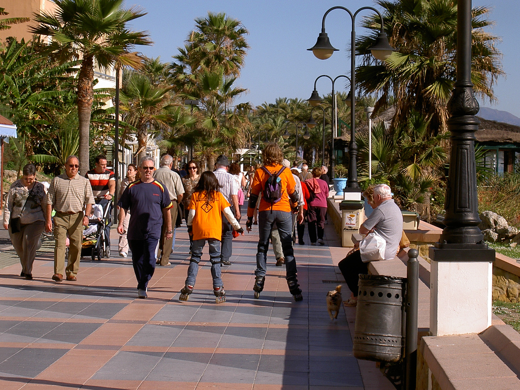 Paseo Marítimo Torremolinos, Spain.